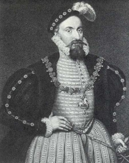 Portrait of Robert Dudley, Earl of Leicester (1532-1588). Engraving after a painting in the NPG from c.1575.